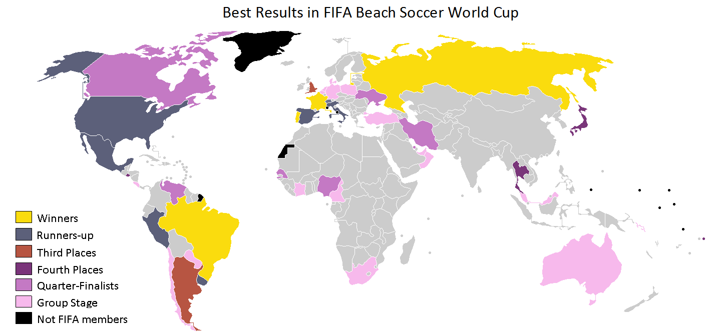 Map of the world nations' best results in the FIFA Beach Soccer World Cup. Newly updated